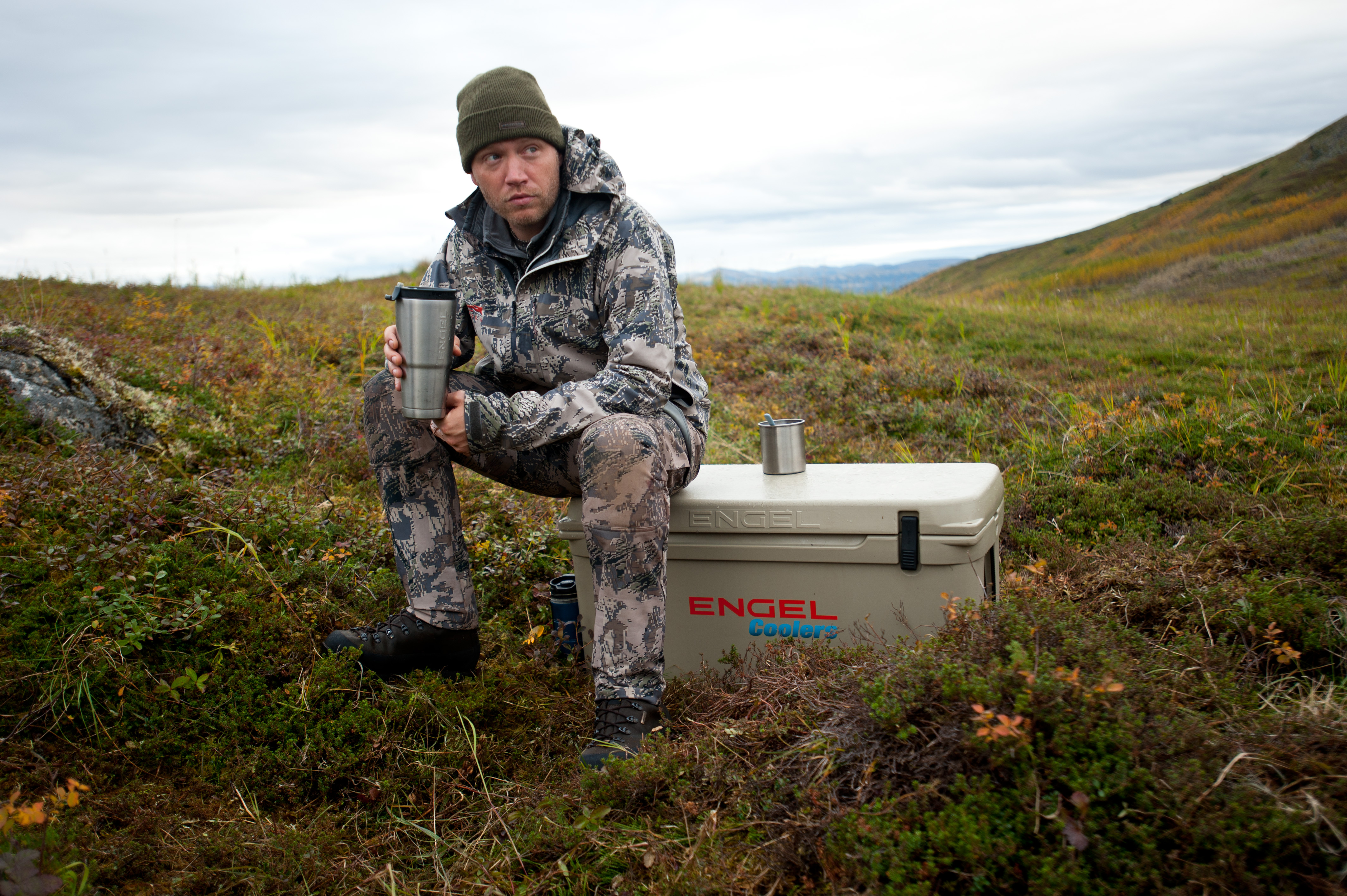 Nick Hoffman, Host of "Nick's Wild Ride" on Outdoor Channel taking a break in the backcountry of Alaska